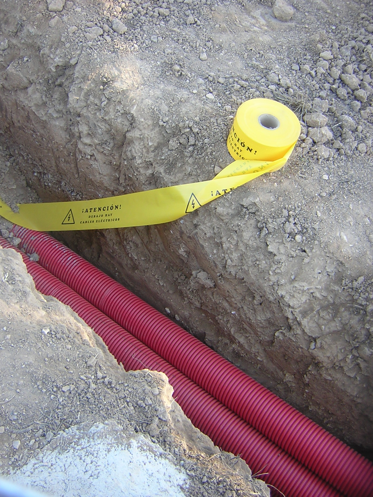 Electricity cables: grid connected photovoltaic plant, Bellpuig, Camí de Lleida